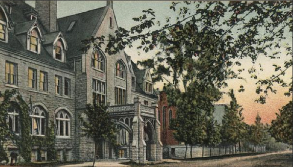 Grafton Hall School, Diocese of Fond du Lac, Wisconsin, 1905 Other information No.